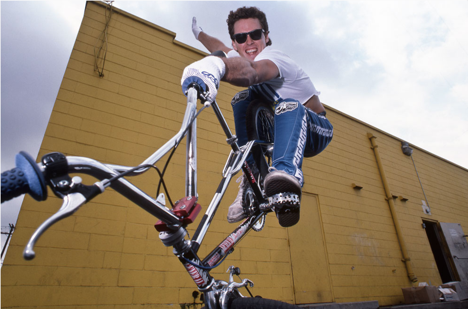 RL Osborn during his professional career with General Bikes